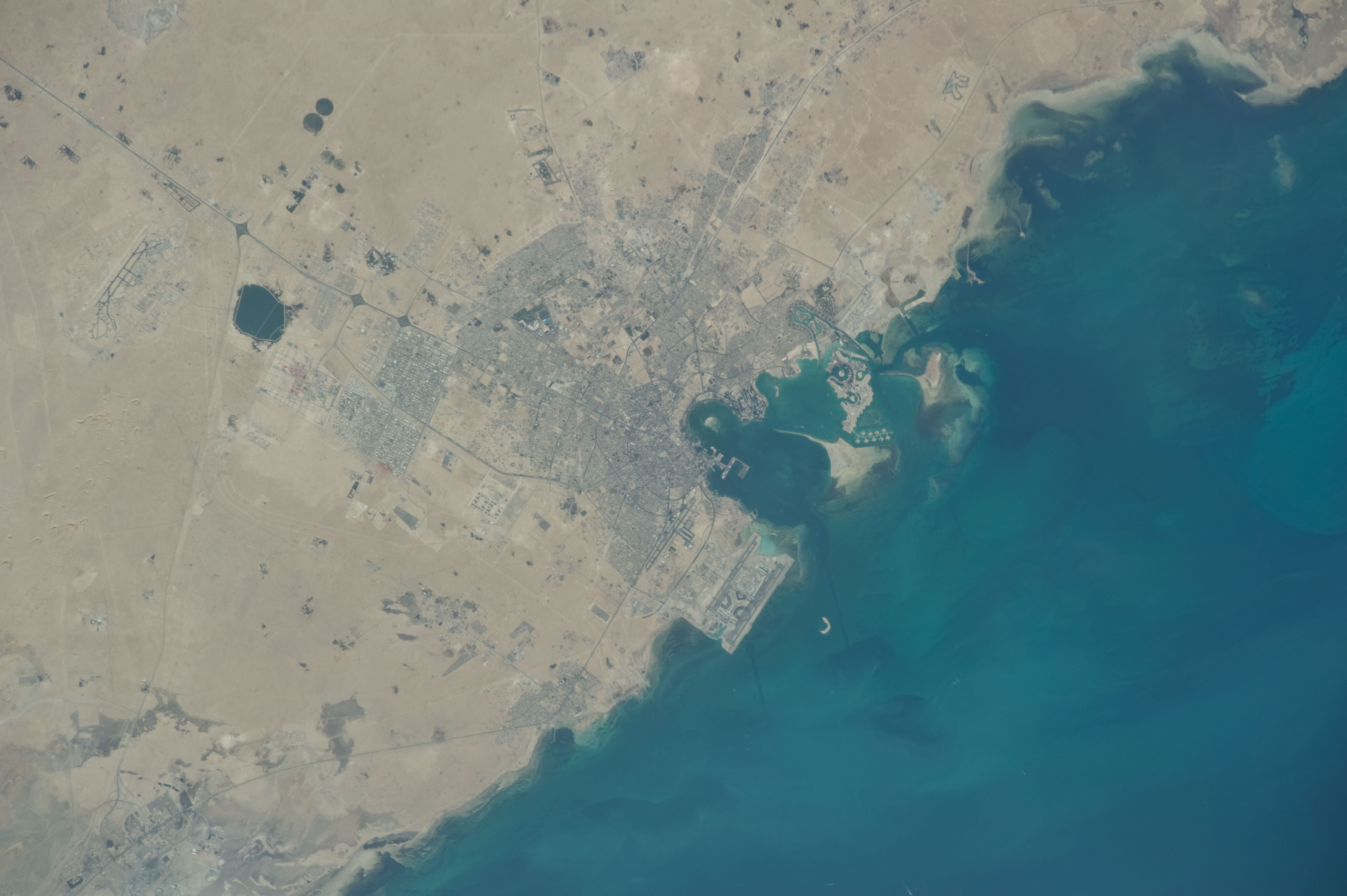 Astronaut Photo of Doha, Qatar taken from the International Space Station (ISS) during Expedition 23 on May 6, 2010.